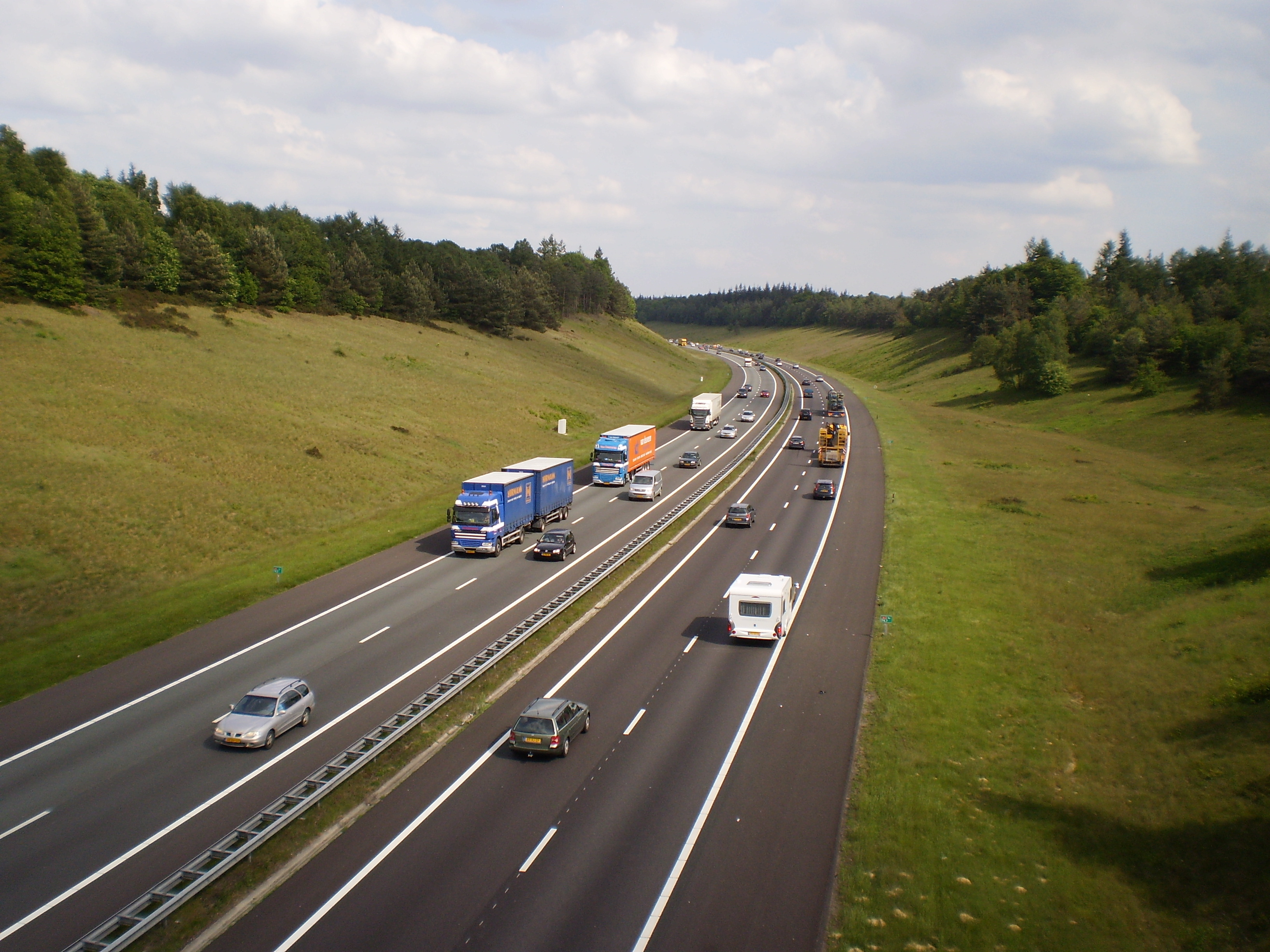 A1 motorway near Hoog Buurlo